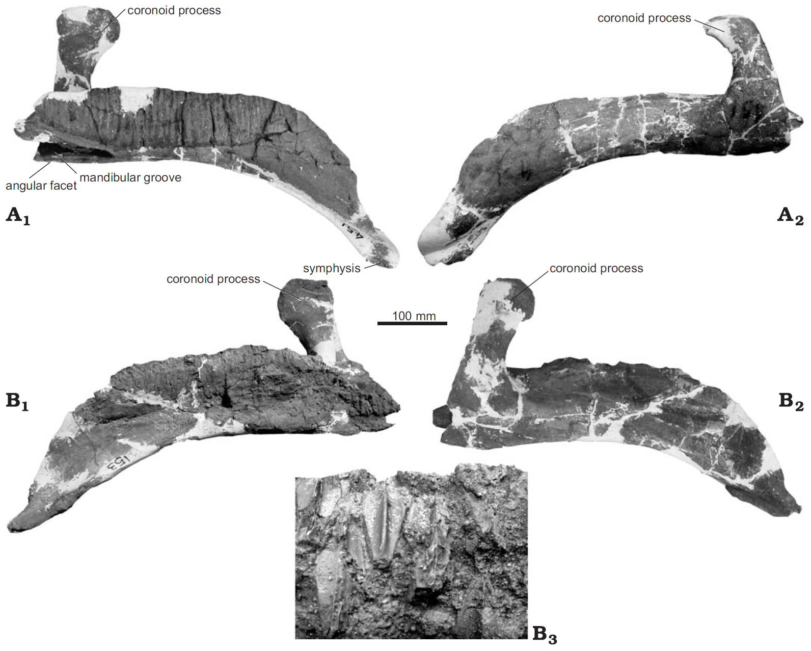 The hadrosaurid dinosaur Sahaliyania elunchunorum gen. et sp. nov. from the Upper Cretaceous Yuliangze Formation at the Wulaga quarry, China. A. GMH W451, left dentary in medial (A1) and lateral (A2) views. B. GMH W153, right dentary in medial (B1) and lateral (B2) views, and detail of dentary teeth (B3).